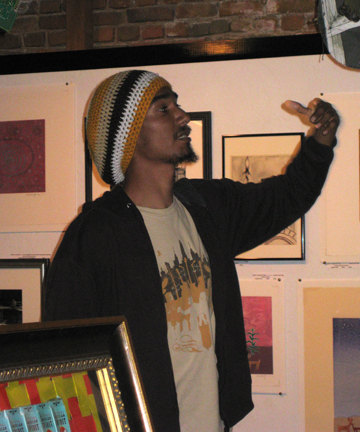 Ras K-Dee, Pomo singer, youth advocate, and editor of SNAG magazine, performing in Port Arena, California